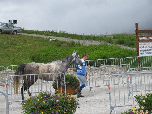 A veterinary inspection in an endurance ride